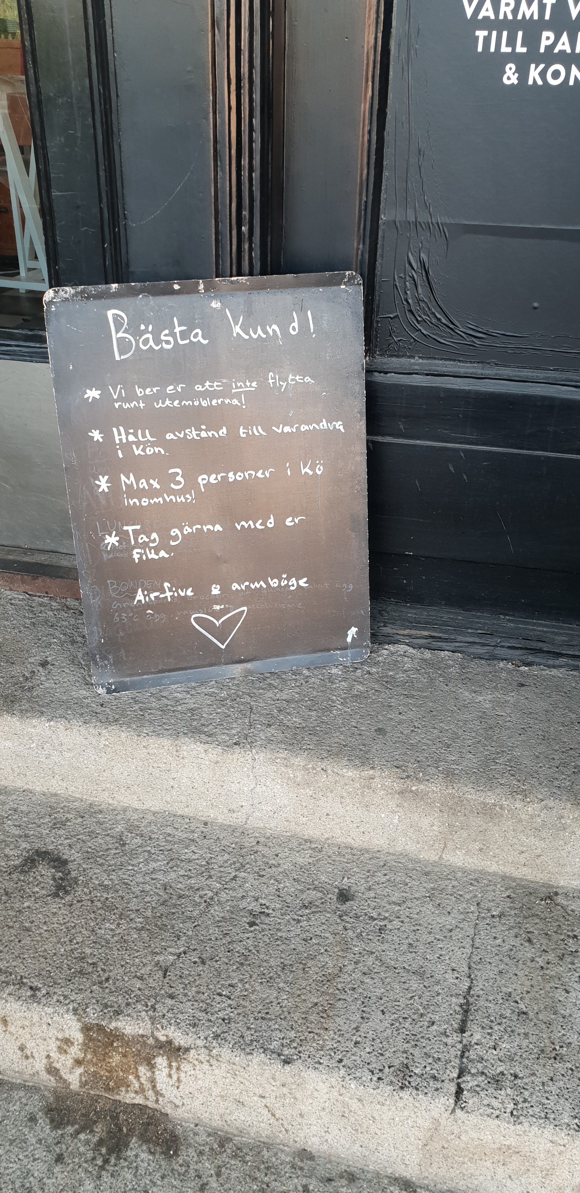 A cafe in Äppelviken, Alvik, informs customers and visitors about rules during the Covid 19 pandemic.